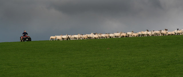 Hamburn Hall Farm Shepherding on Hamburn Hall Farm.